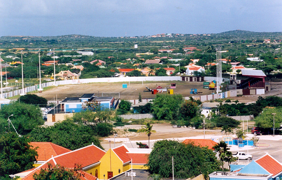 Kralendijk Stadium, soccer stadium located in Bonaire's capital